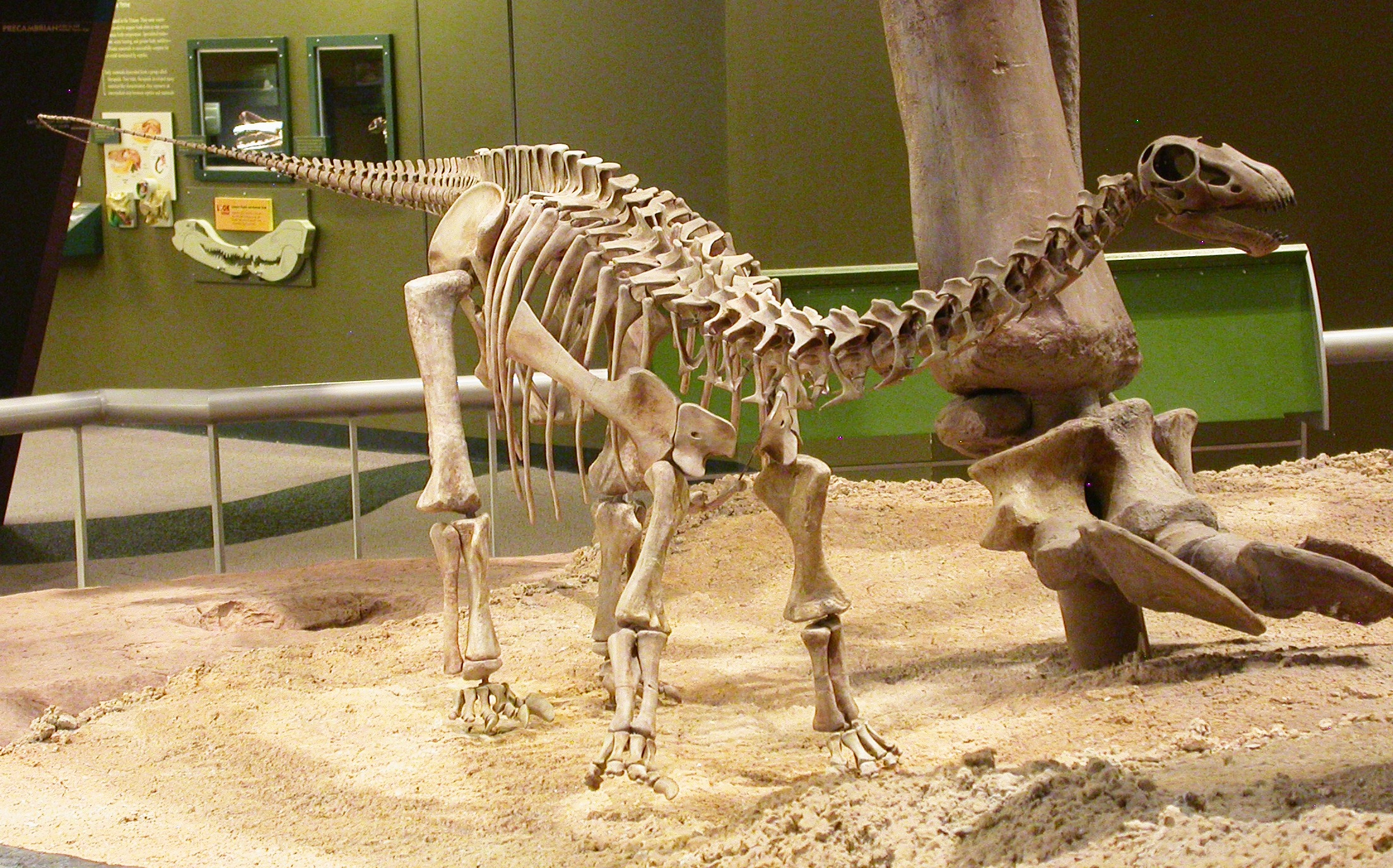 Mounted baby Apatosaurus specimen in the Oklahoma Museum of Natural History. Most of the vertebral centra, a few of the neural arches, some of the limb girdle bones, and most of the long bones of the limbs are preserved remains. All of the missing elements – skull, neural arches, ribs, appendicular bits–were sculpted by the OMNH head preparator, Kyle Davies.